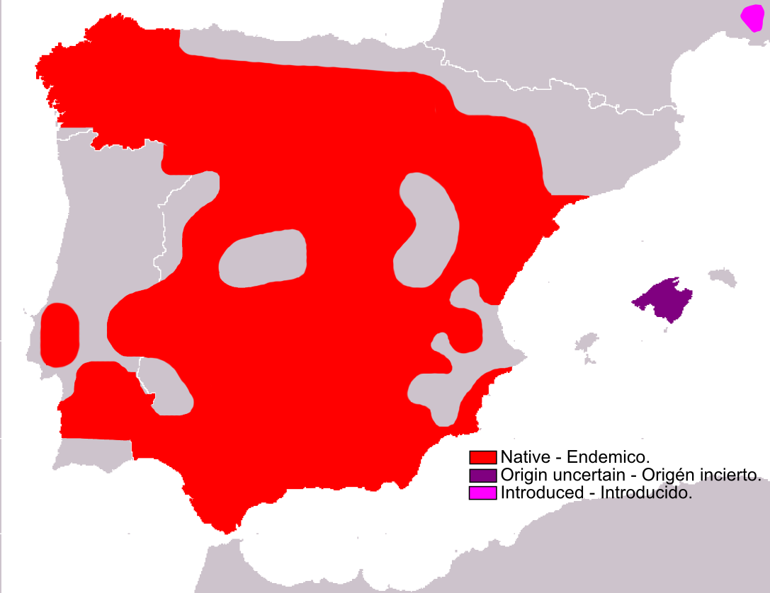 Distribution range map of Lepus granatiensis.